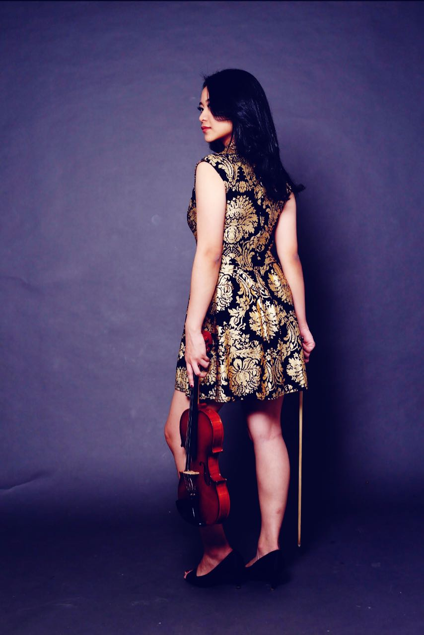 Indonesian Violinist